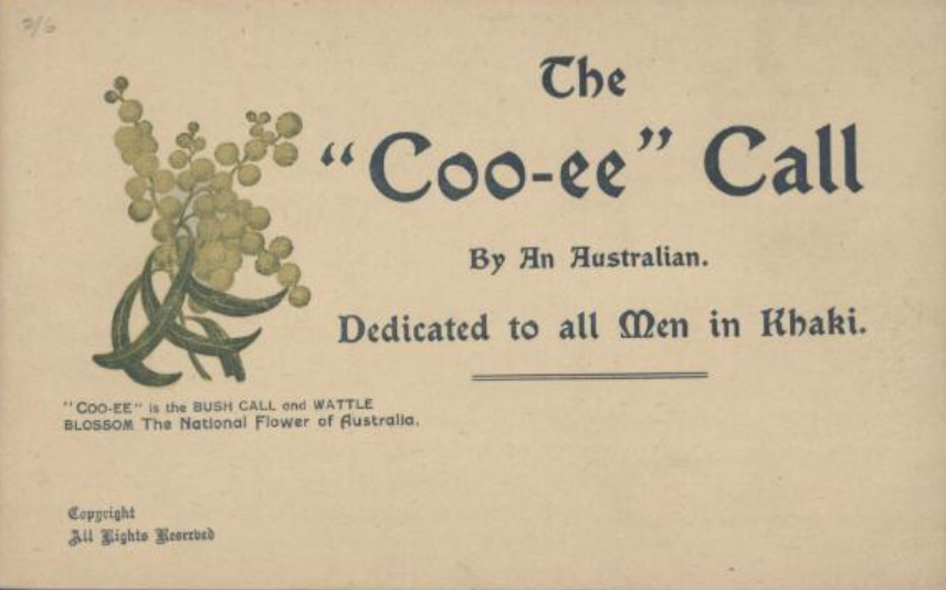 The "Coo-ee" Call, a booklet of songs by Maude Wordsworth James, published in 1917